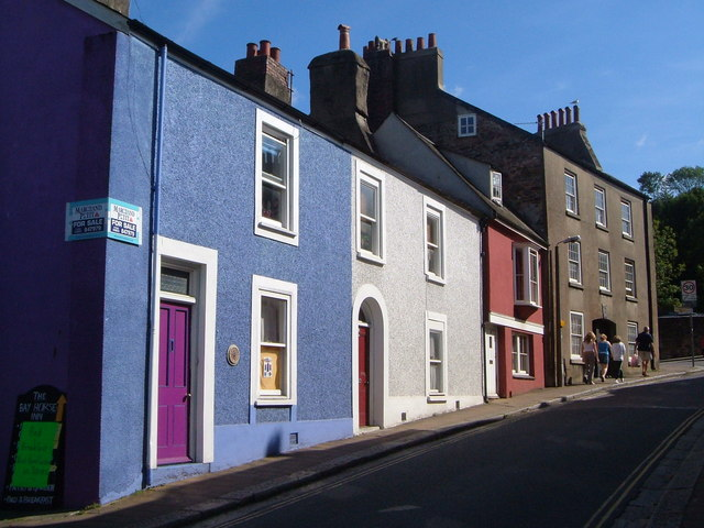 Houses in Cistern Street, Totnes. Colours designed to stand out in this terrace where Cistern Street climbs to meet the by-pass.